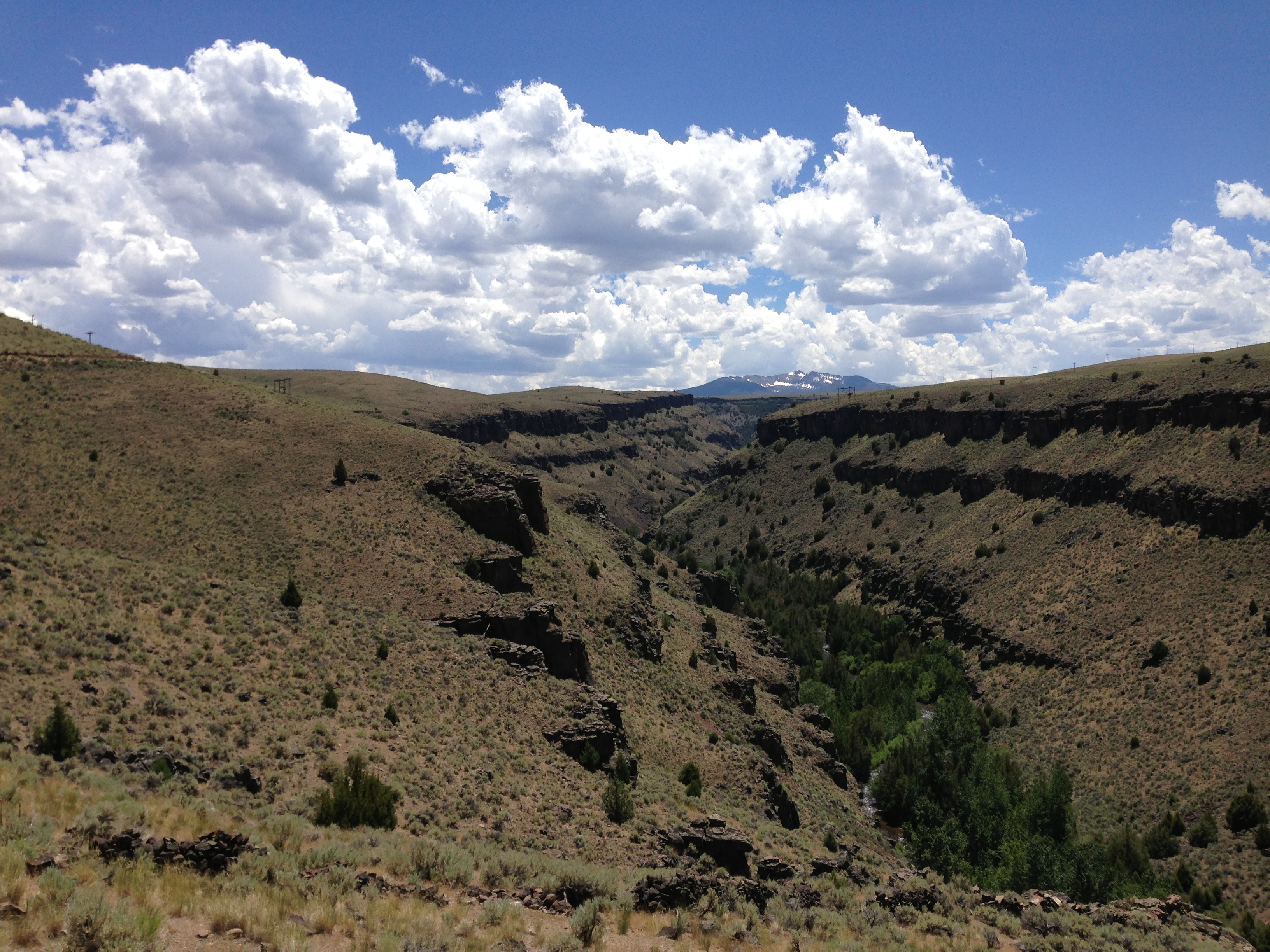 View south up the East Fork Jarbidge River Canyon near Murphy's Hot Springs, in Owyhee County, Idaho.